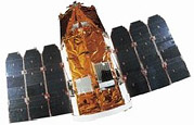 EROS-B Satellite thumbnail size picture